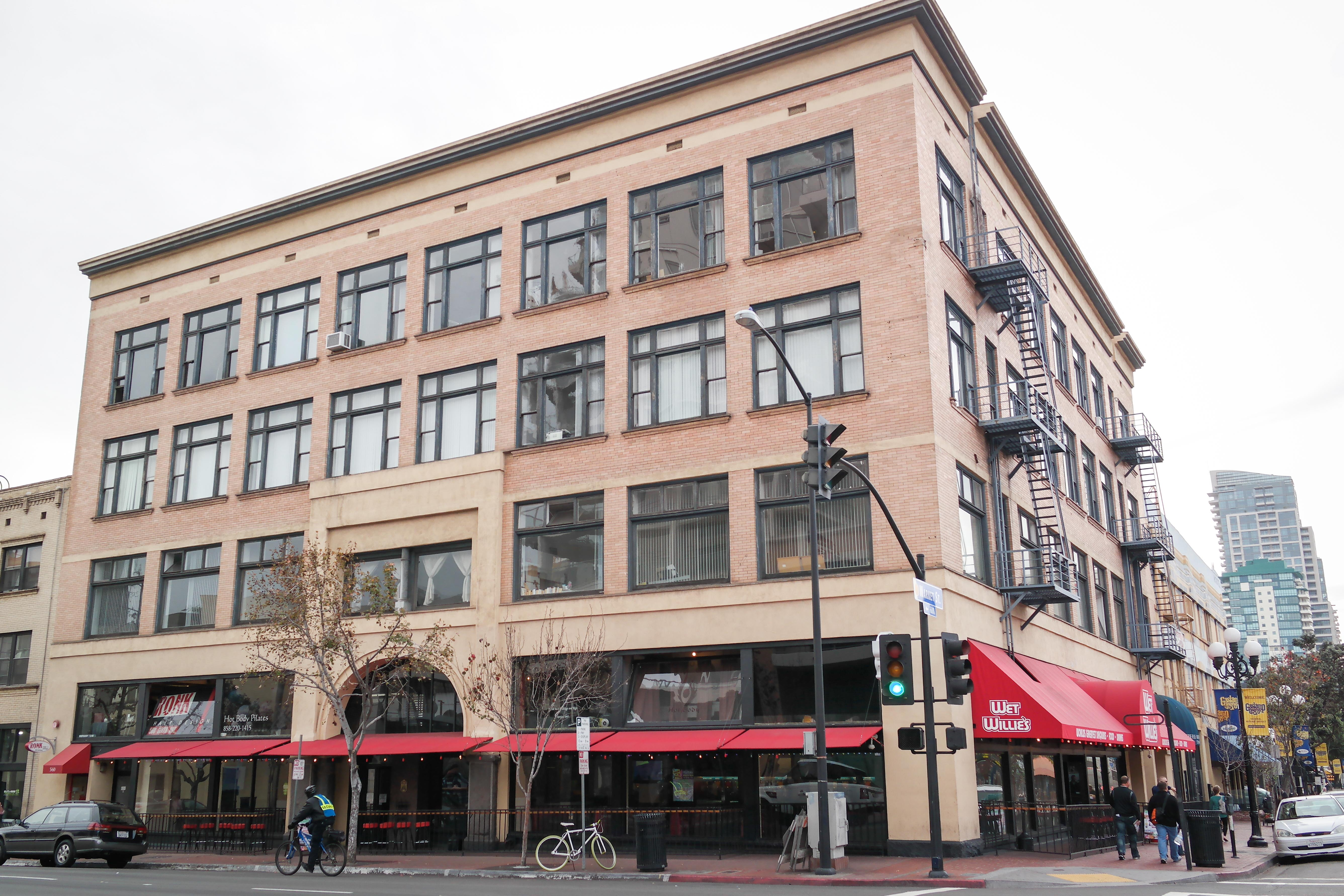 Historic Building Survey plaque: "78 The Alan John Factory 1908. This four-story building is made of concrete with a pressed brick front and a loft-like gallery on the first floor. In 1910, George Hazard and Elwyn Gould opened a hardware store here and later used it as a warehouse. Later, Krasne's Leather Goods and Guns operated on the ground floor, and the upper floors contained the Alan John Clothing Factory."